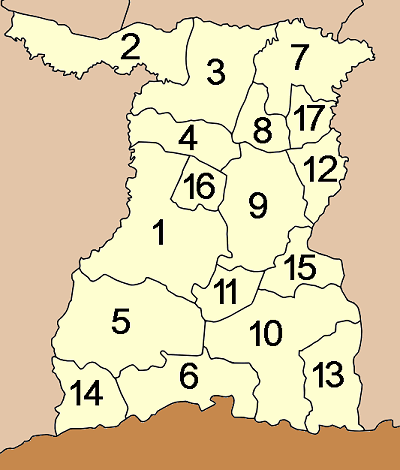 Map of Surin province, Thailand, with the districts (Amphoe) numbered Mueang Surin (อำเภอเมืองสุรินทร์) Chumpon Buri (อำเภอชุมพลบุรี) Tha Tum (อำเภอท่าตูม) Chom Phra (อำเภอจอมพระ) Prasat (อำเภอปราสาท) Kap Choeng (อำเภอกาบเชิง) Rattanaburi (อำเภอรัตนบุรี) Sanom (อำเภอสนม) Sikhoraphum (อำเภอศีขรภูมิ) Sangkha (อำเภอสังขะ) Lamduan (อำเภอลำดวน) Samrong Thap (อำเภอสำโรงทาบ) Buachet (อำเภอบัวเชด) Phanom Dong Rak (อำเภอพนมดงรัก) Si Narong (อำเภอศรีณรงค์) Khwao Sinarin (อำเภอเขวาสินรินทร์) Non Narai (อำเภอโนนนารายณ์)